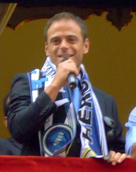 Francisco Javier Farinós on the balcony of the City of Alicante following promotion to the Primera Division with the Hercules C. F. in the 2009/10 season.